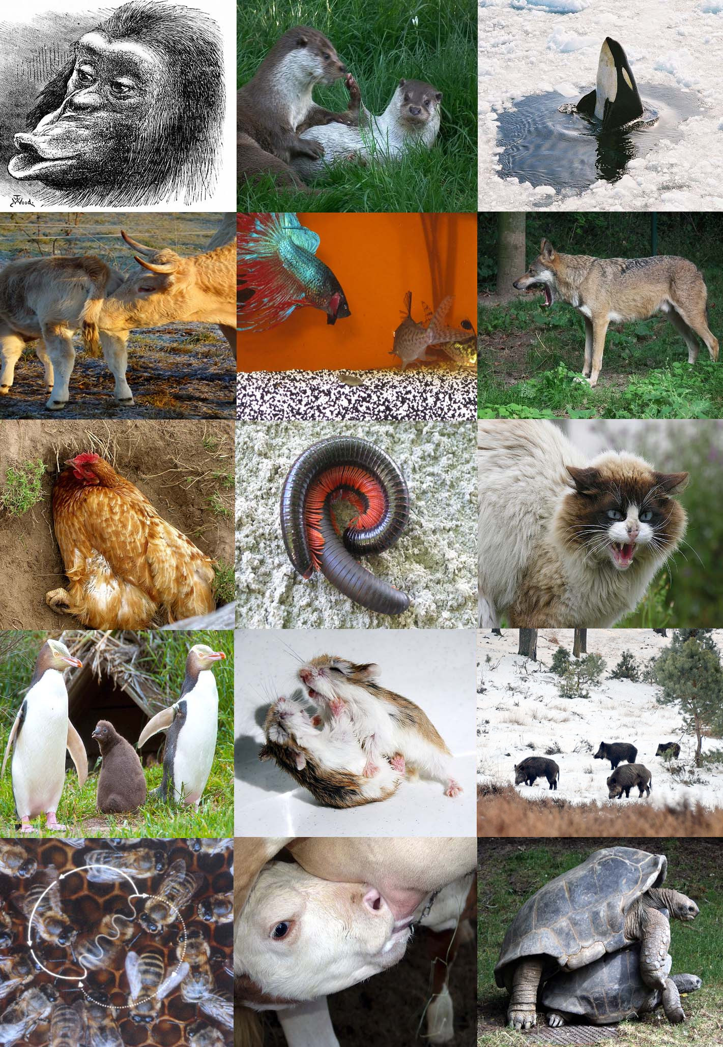 This is a collection of images intended to show a diversity of animal behaviour (ethology). All the images were taken from the wikimedia commons. This is a derived version that shows wild boar instead of domesticated pigs, everything else being identical to the version by DrChrissy. The change was made to better reflect the meaning of ethology as well as to avoid portrayal of speciesistic ideology and presenting a more neutral perspective on ethology.